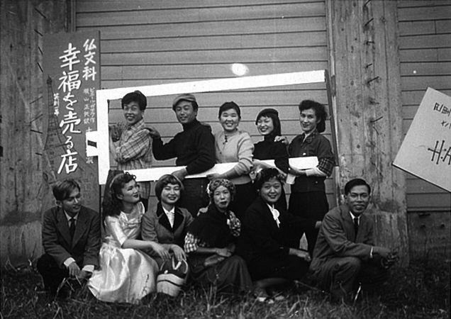 Tokyo, 1956, Keio University. Students gathered before playing Pierre Gamarra's Bonheur and Co. for the first time